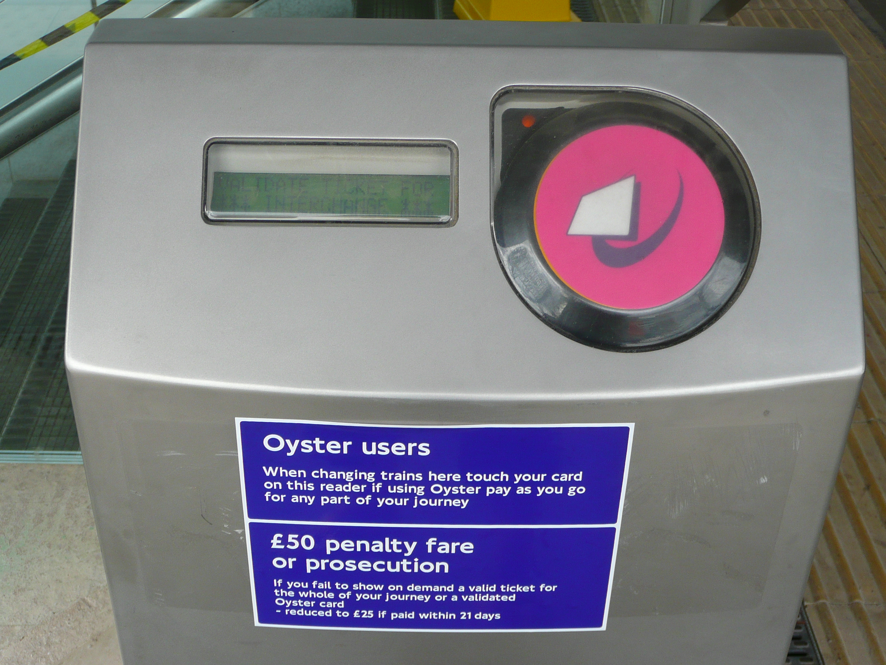 A "route validator" Oyster card reader which allows passengers making orbital journeys around London that do not go through the central Zone 1 to benefit from cheaper fares.